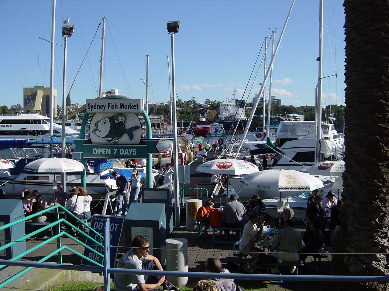 Image of the Sydney Fish Market. Taken May 2003.